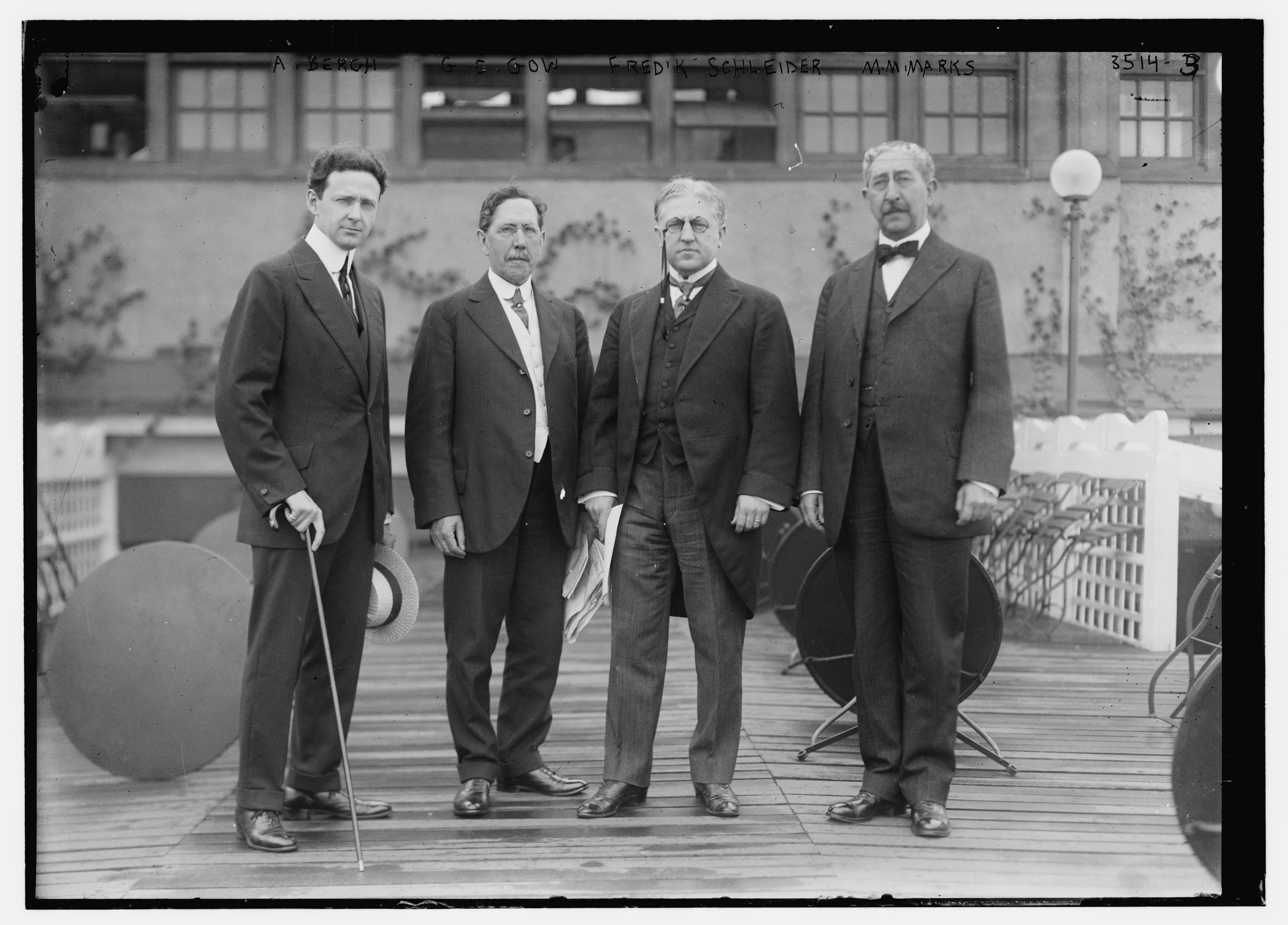 From left to right are: Arthur Oscar Bergh, George Coleman Gow, Frederick Schlieder, and Marcus M. Marks at the meeting of the New York State Music Teachers Association on June 18, 1915. A. Bergh -- G.C. Gow -- Fred'k [i.e., Frederick] Schleider -- M.M. Marks (LOC) Bain News Service, publisher. 1 negative : glass ; 5 x 7 in. or smaller. Notes: Title from data provided by the Bain News Service on the negative. Forms part of: George Grantham Bain Collection (Library of Congress). Format: Glass negatives. Repository: Library of Congress, Prints and Photographs Division, Washington, D.C. 20540 USA, General information about the Bain Collection is available at Higher resolution image is available (Persistent URL): Call Number: LC-B2- 3514-3